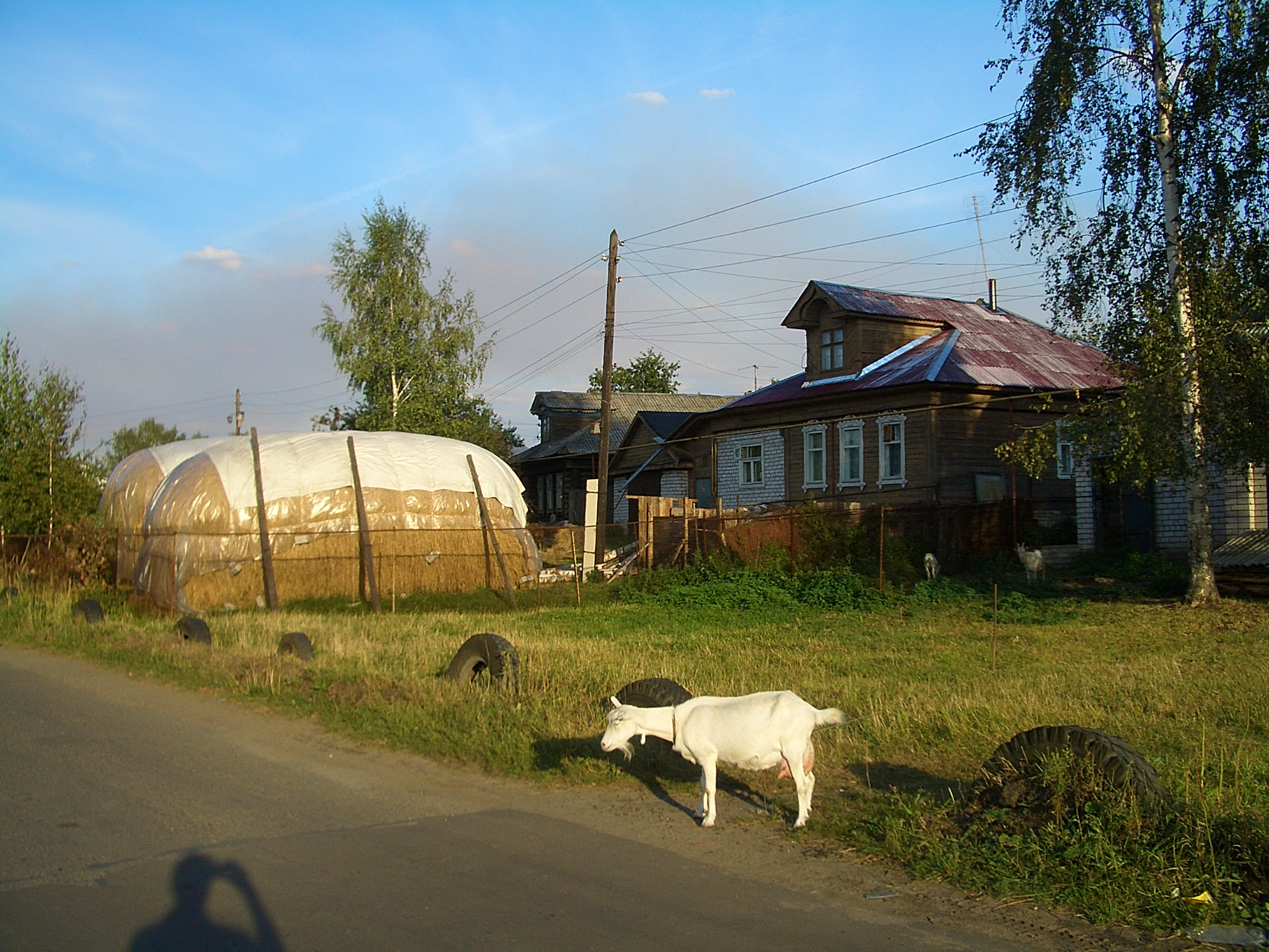 In an older neighborhood of Balakhna. This homeowner has stocked up well on hay for the winter!